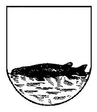 Coat of Arms of the Thorbecke family (Johan Rudolph Thorbecke, 1798-1872, Dutch Prime Minister 1849-1853, 1862-1866, 1871-1872)